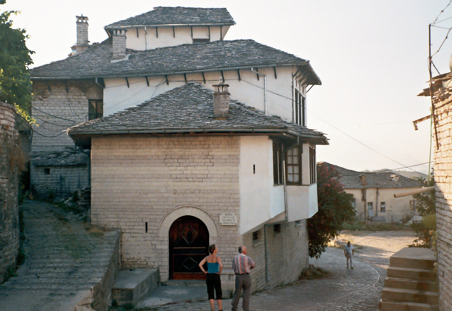 House of Enver Hoxha in Gjirokaster (actually museum)